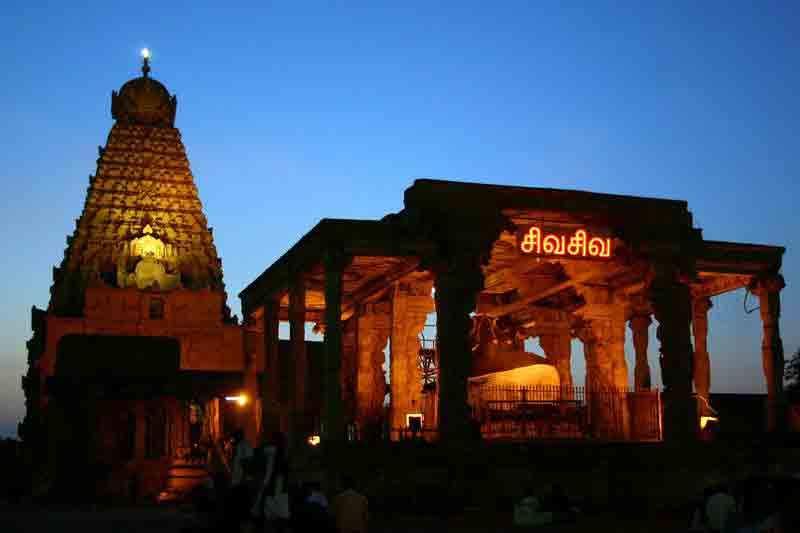 Brihadeeswarar_Temple . This is a thousand plus years old temple located in Tanjore, India. It has the writing "Siva Siva" "சிவ சிவ" at its entrance.